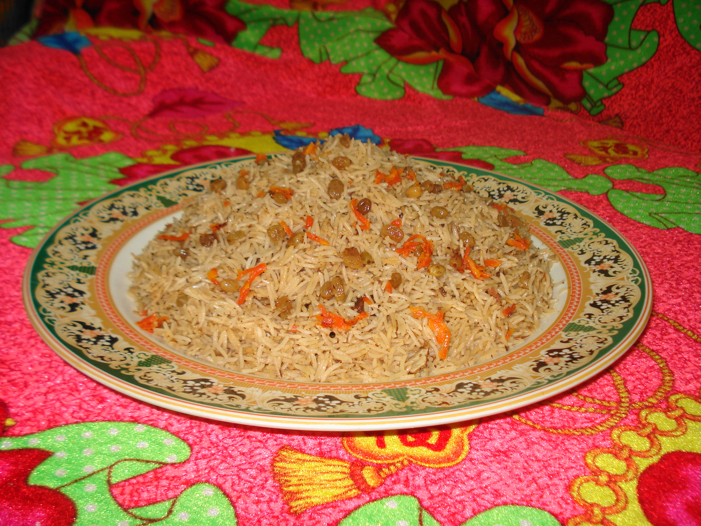 Afghani Pulao/Kabuli Pulao